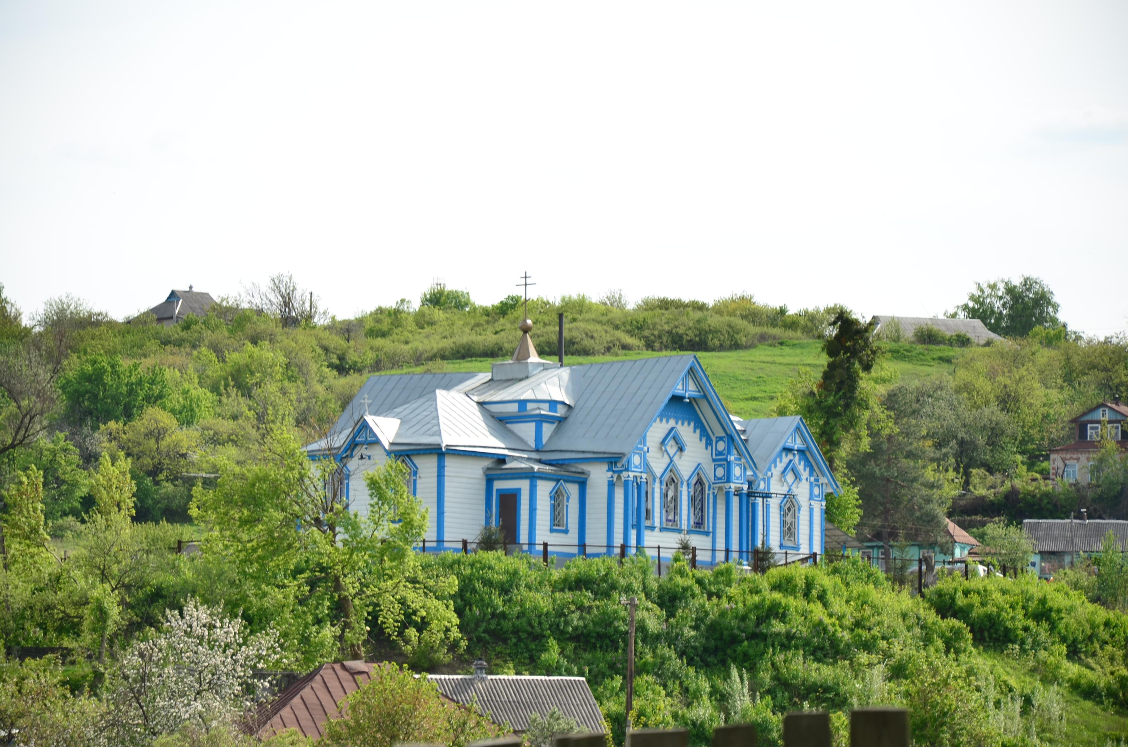 Church of the Exaltation of the Holy Cross Borova